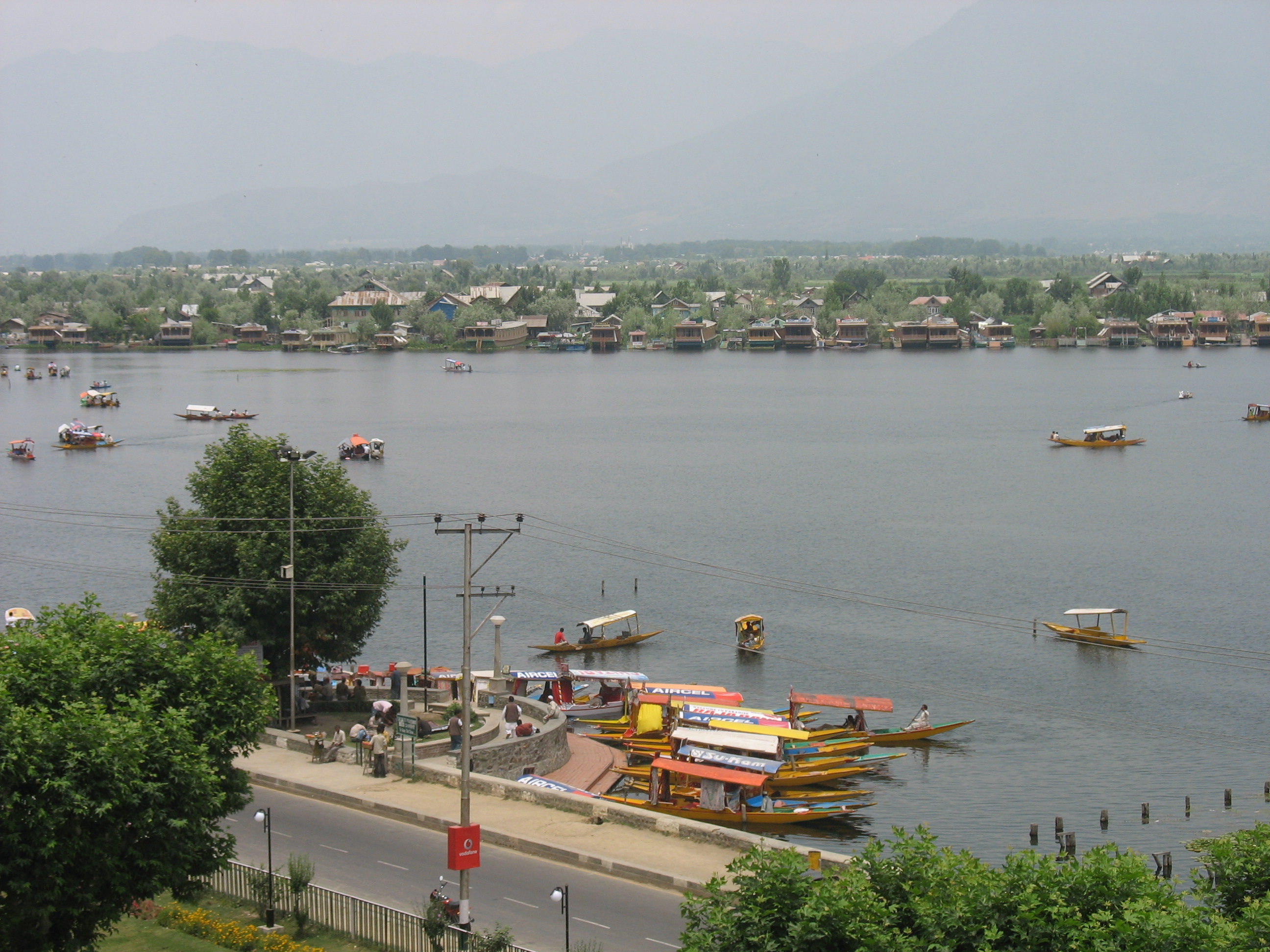 Dal Lake, Srinagar, India photographed from a hilltop